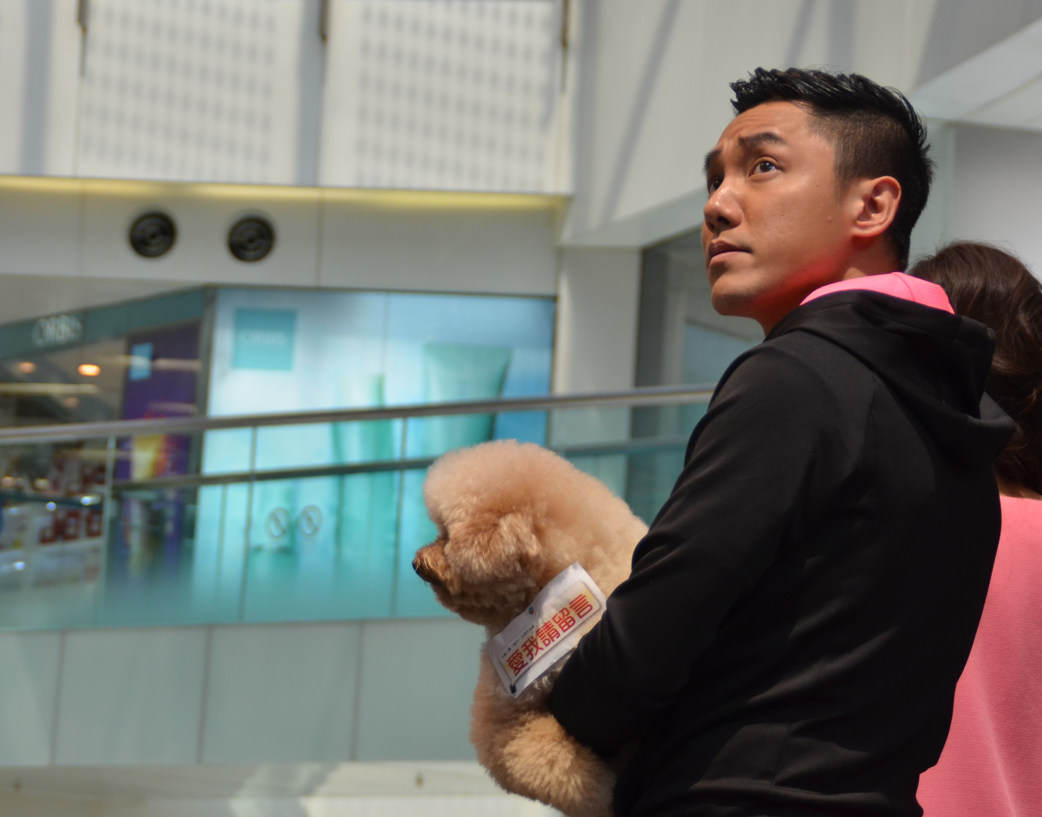 Male Artist from Hong Kong - Jonathan Cheung Wing Hong